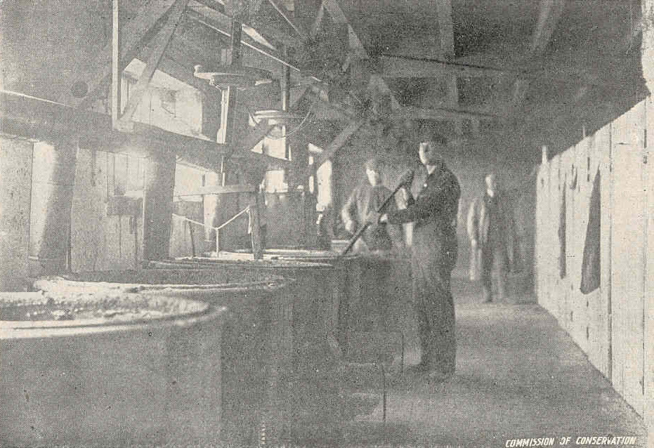 Rendering Room where the Fish Waste was Treated to Separate the Valuable Oil Content, Port Dover, Ont . Subject: Fisheries by-products, Fishery processing, Fish oils Geographic Subject: Canada--Ontario--Port Dover Tag: Commercial Fisheries